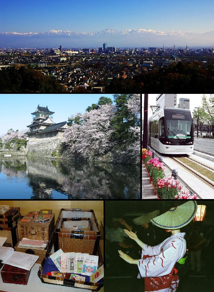 City central and Mt. Tate viewed from Mt. Kureha, Toyama Castle, Toyama Light Rail, Traditional medicines of Toyama, Owara Kaze no bon.